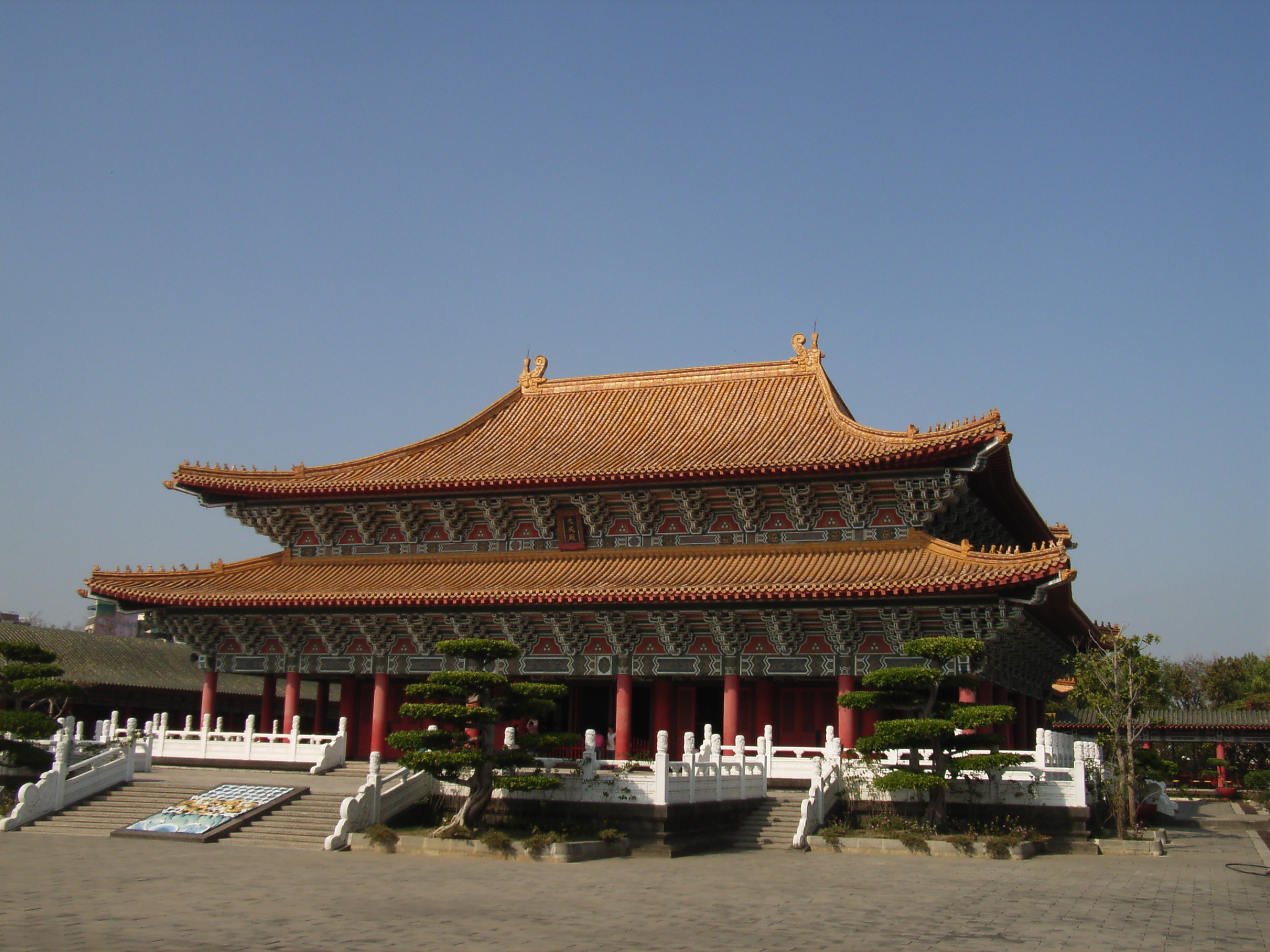 Zuoying Taiwan Confucian Temple